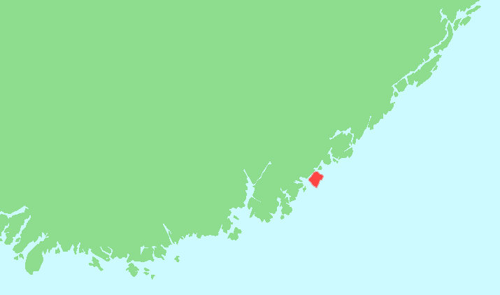 Locator map of Justøya, Aust-Agder, Norway